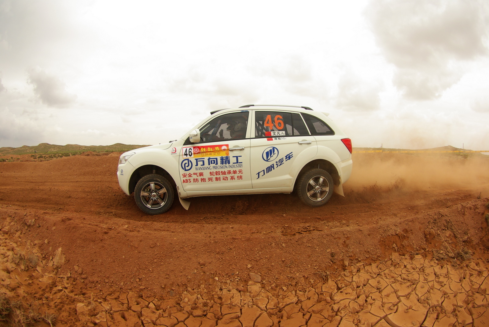 Lifan X60 SUV as a racing car -- Zhangye CRC 2011